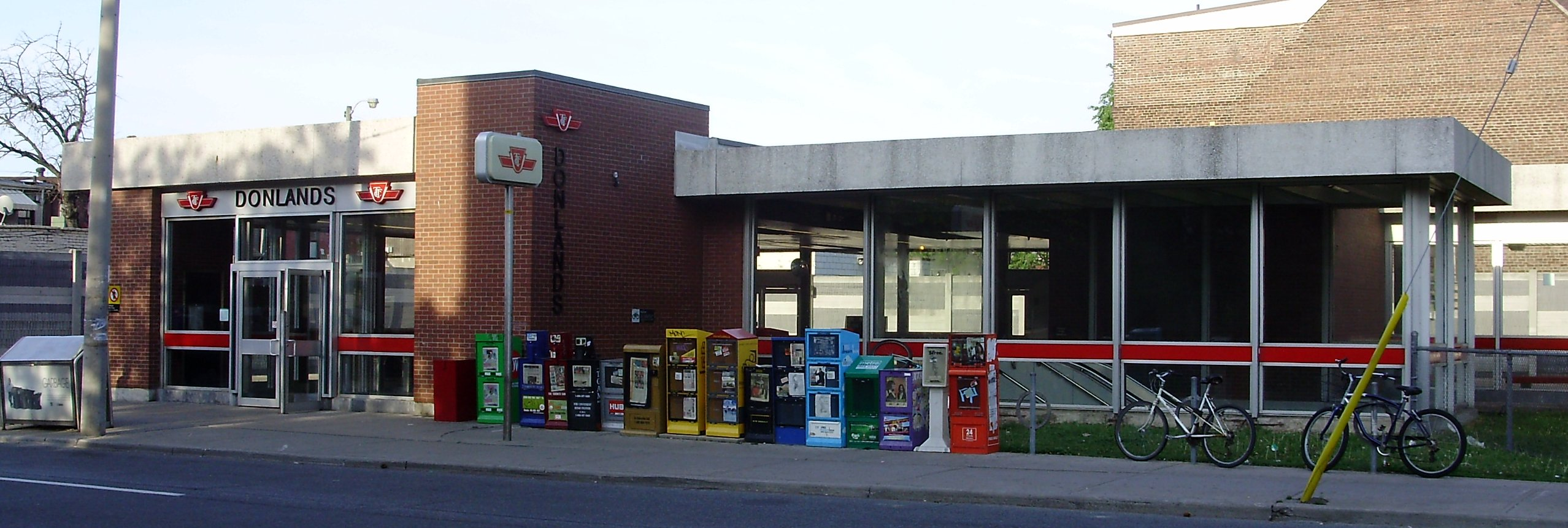 The station building of the Toronto Transit Commission's Donlands station in Toronto, Canada.